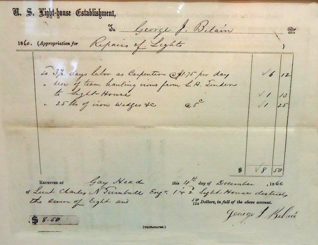 An official bill payment document dated December 4, 1860 from the "U. S. Light-house Establishment", for a bill submitted by Charles N. Tumbull in the sum of $8.50 for 3.5 days of labor and materials to repair the Gay Head Light in 1860. These repairs took place four years after the installation of the new brick lighthouse. Photo from private collection of: William Waterway